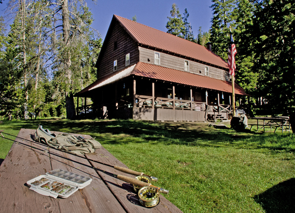 Drakesbad Lodge is a popular gathering space for visitors to enjoy evening games or reading. Lodging is available upstairs.